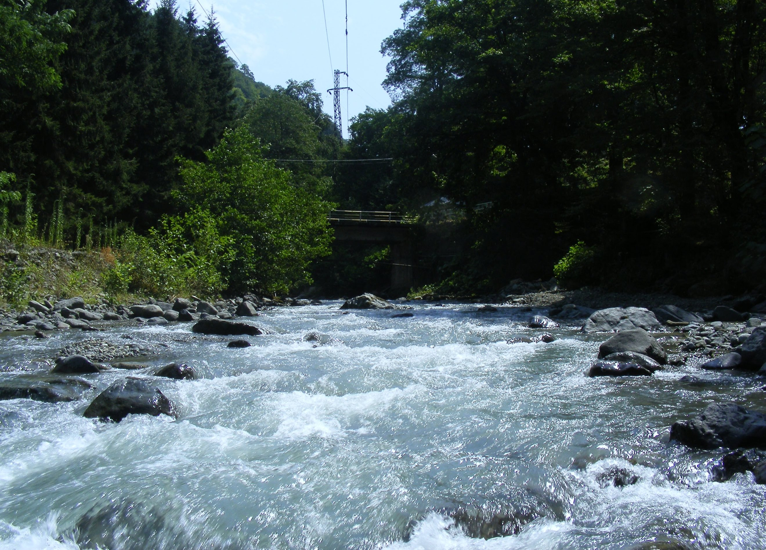 Village Nabeghlavi, River Gubazeuli